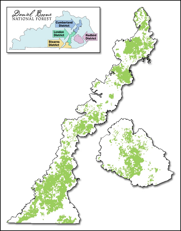 Map of Daniel Boone National Forest showing proclamation boundary and lands actually owned by the Forest Service, as of March 15, 2006. Inset map shows ranger districts.